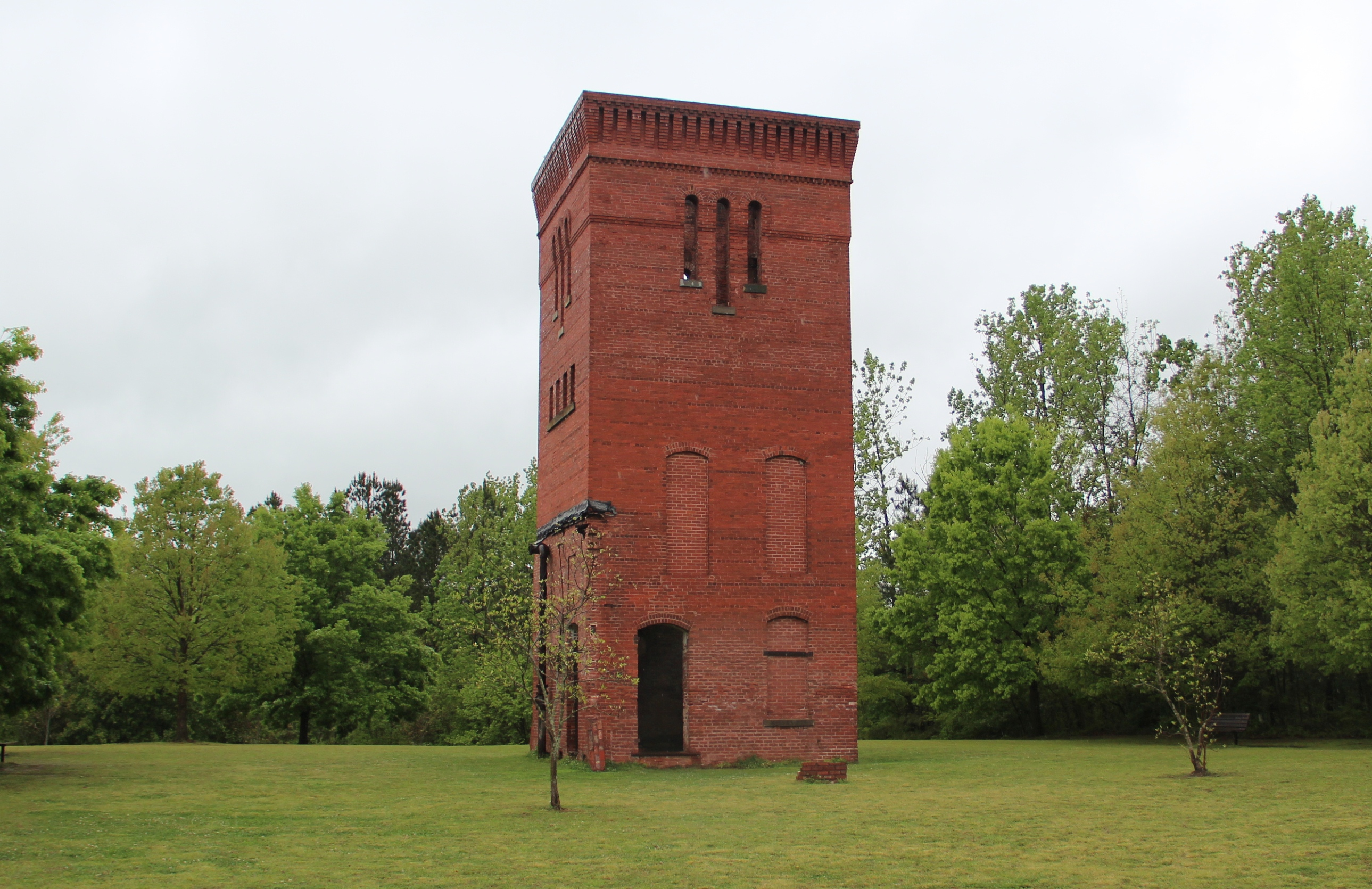 Whittier Mill ruins, Atlanta